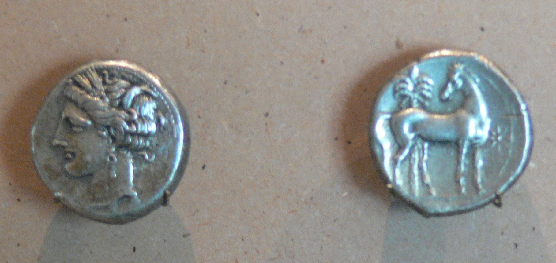 Celtic Museum Manching ( Bavaria ). Silver shekel from Carthage.